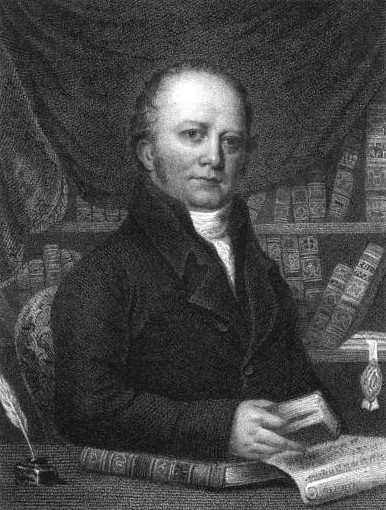 Portrait of Thomas Harwood (1767–1842), English cleric, schoolmaster and antiquarian.